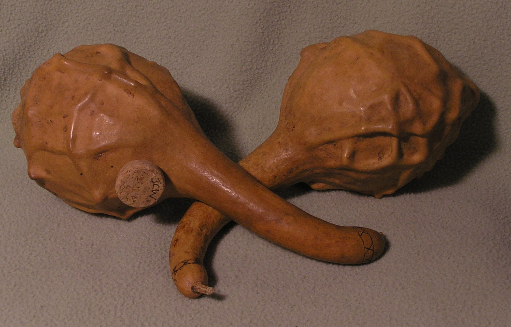 A pair of Hosho, taken with an Olympus C-770 digital camera. Cropped using the GIMP.